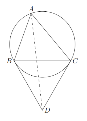 Given a triangle ABC, Construct a point D by intersecting the tangents from B and C to the circumcircle. Then AD is the symmedian of the triangle ABC.